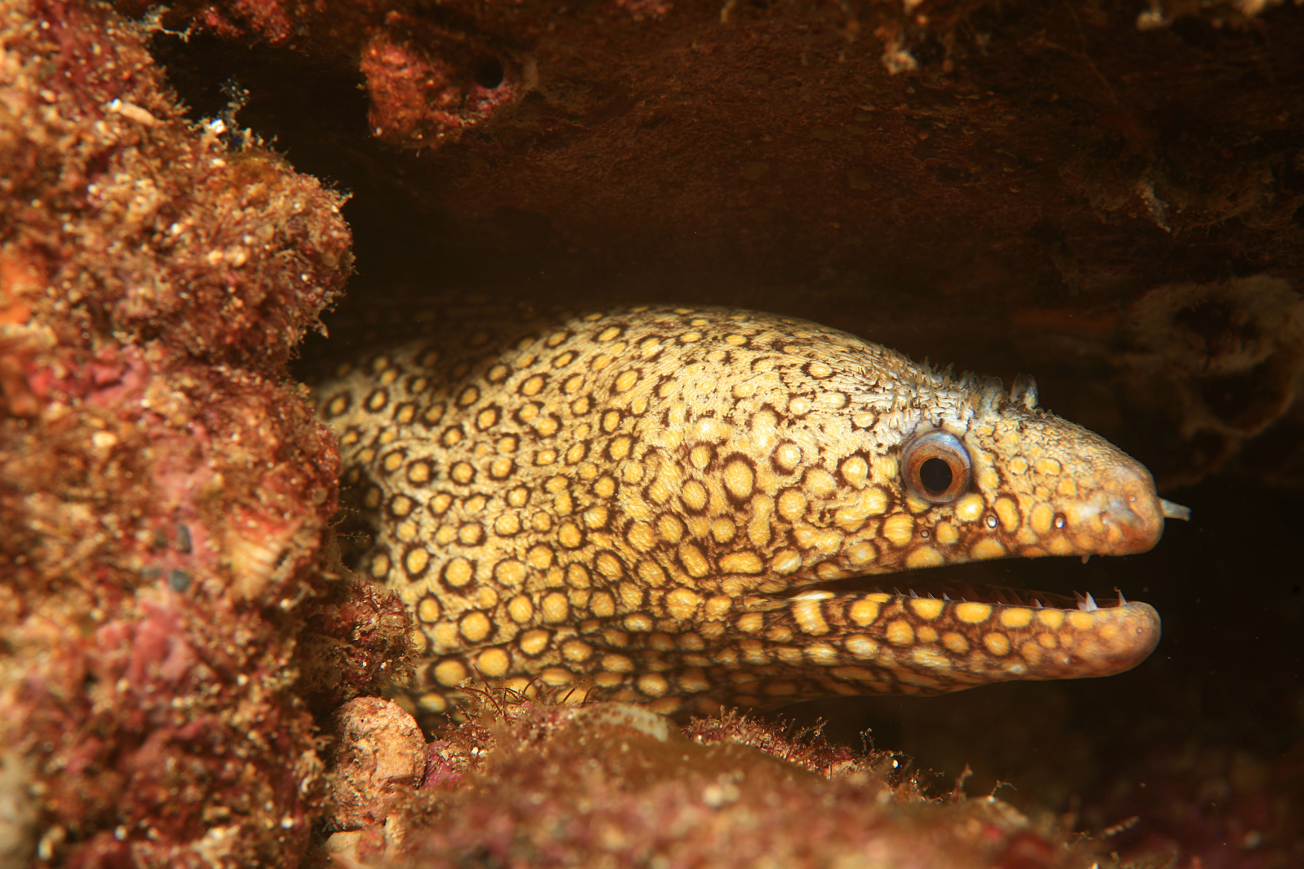 The Jewel Moray (Muraena lentiginosa). Photo taken at Mali Mali dive site in Coiba National Park, Panama.